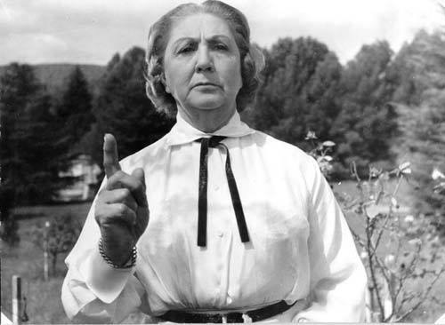 María Luisa Santés- actress